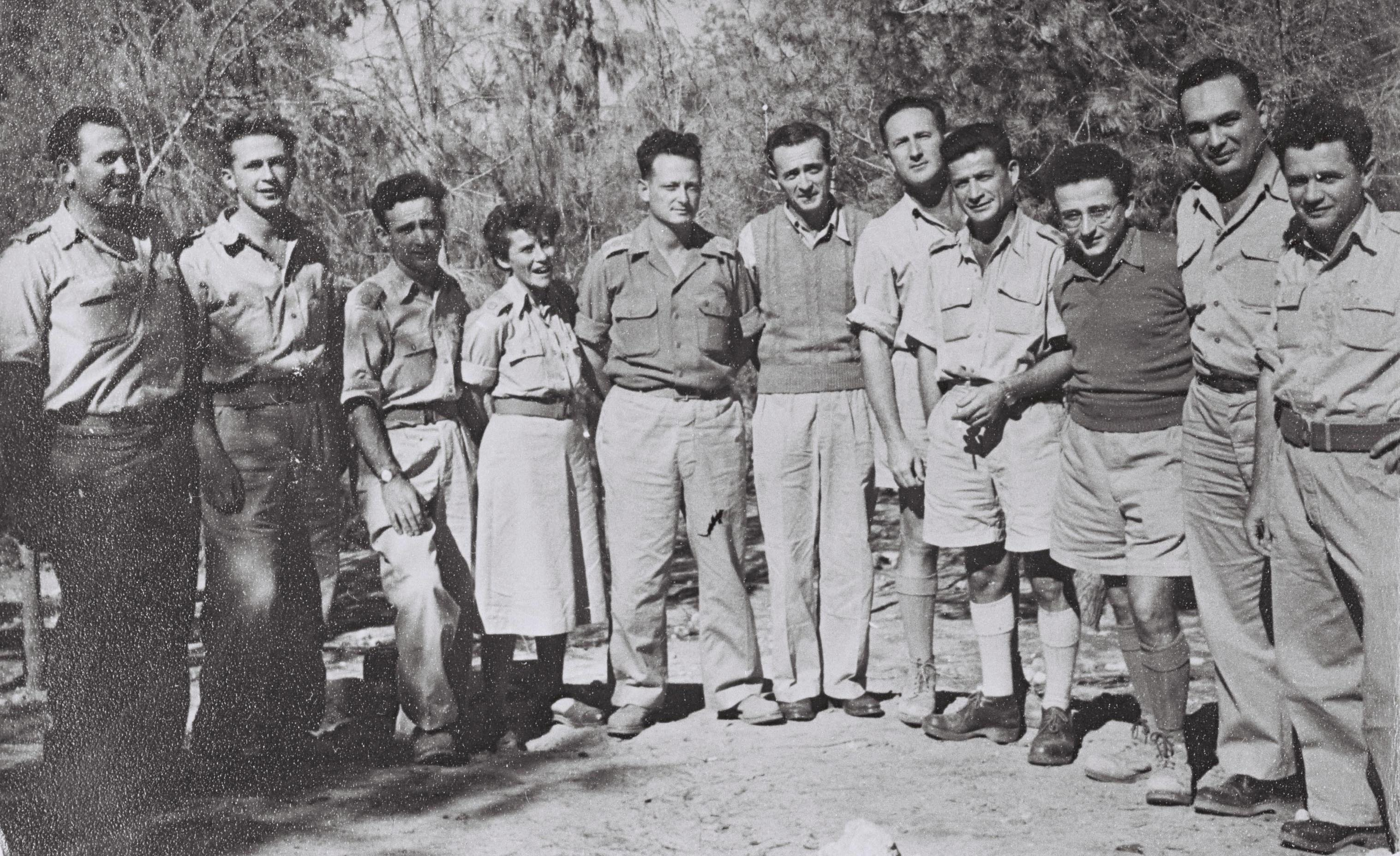 YITZHAK RABIN (SECOND FROM LEFT) & YIGAL ALLON (CENTRE) WITH PALMAH COMMANDERS